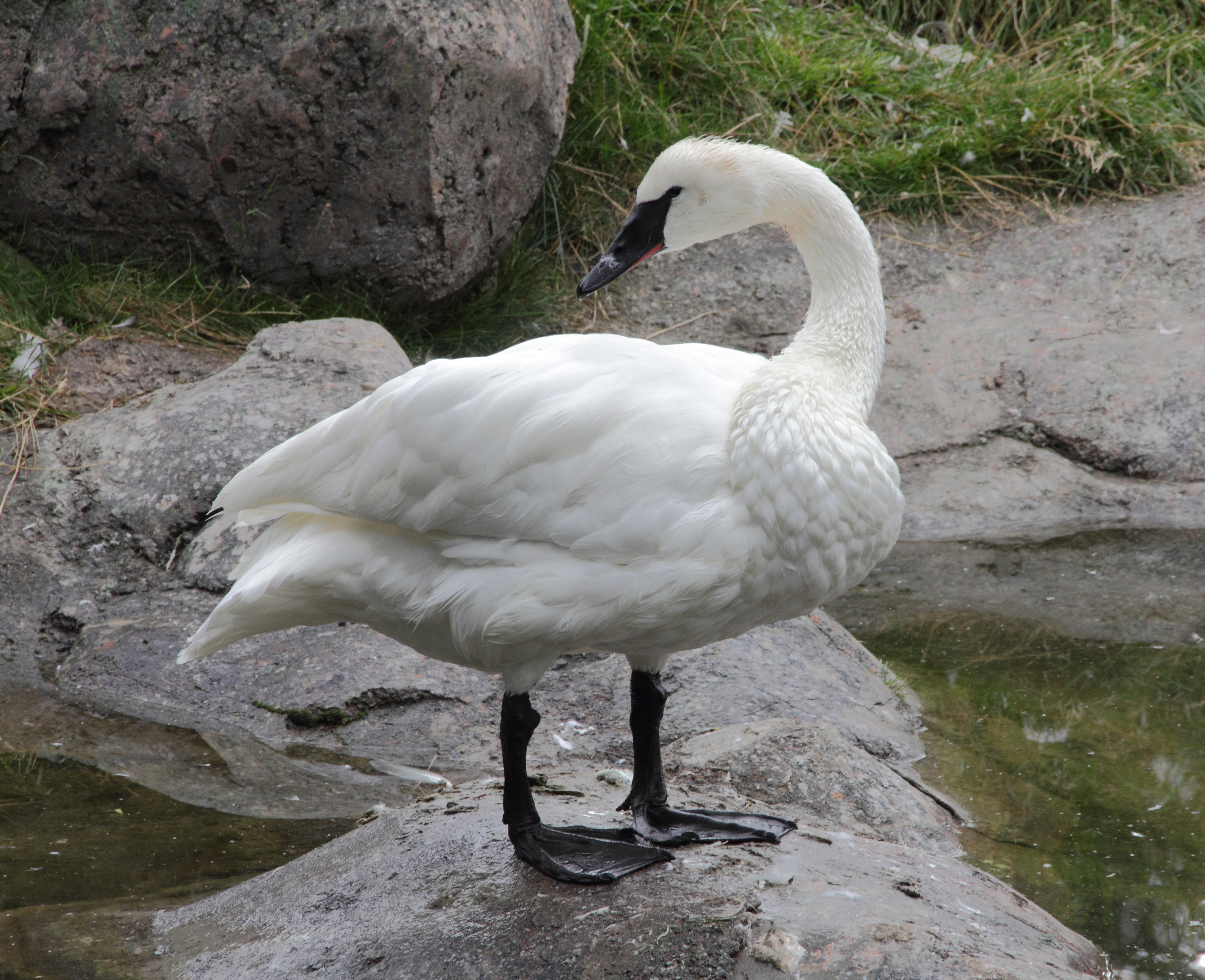 A Trumpeter Swan (Cygnus buccinator) at the Calgary Zoo.